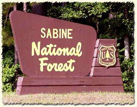 Sabine National Forest sign, Texas